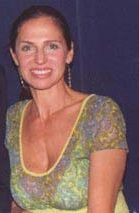 Ginette Reynal- actriz argentina